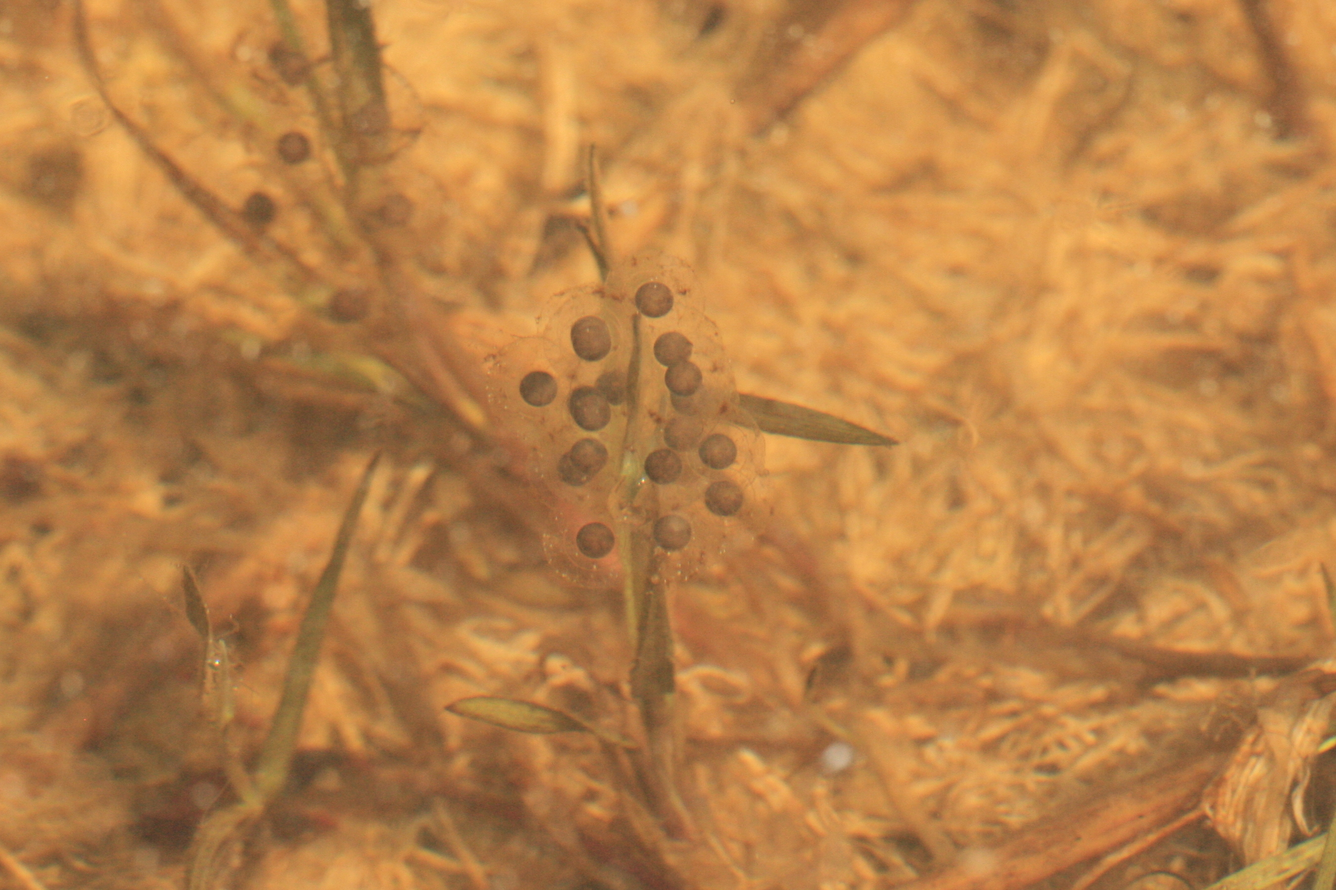 Spawn of the yellow-bellied toad (Bombina variegata) photographed in Weinsberg